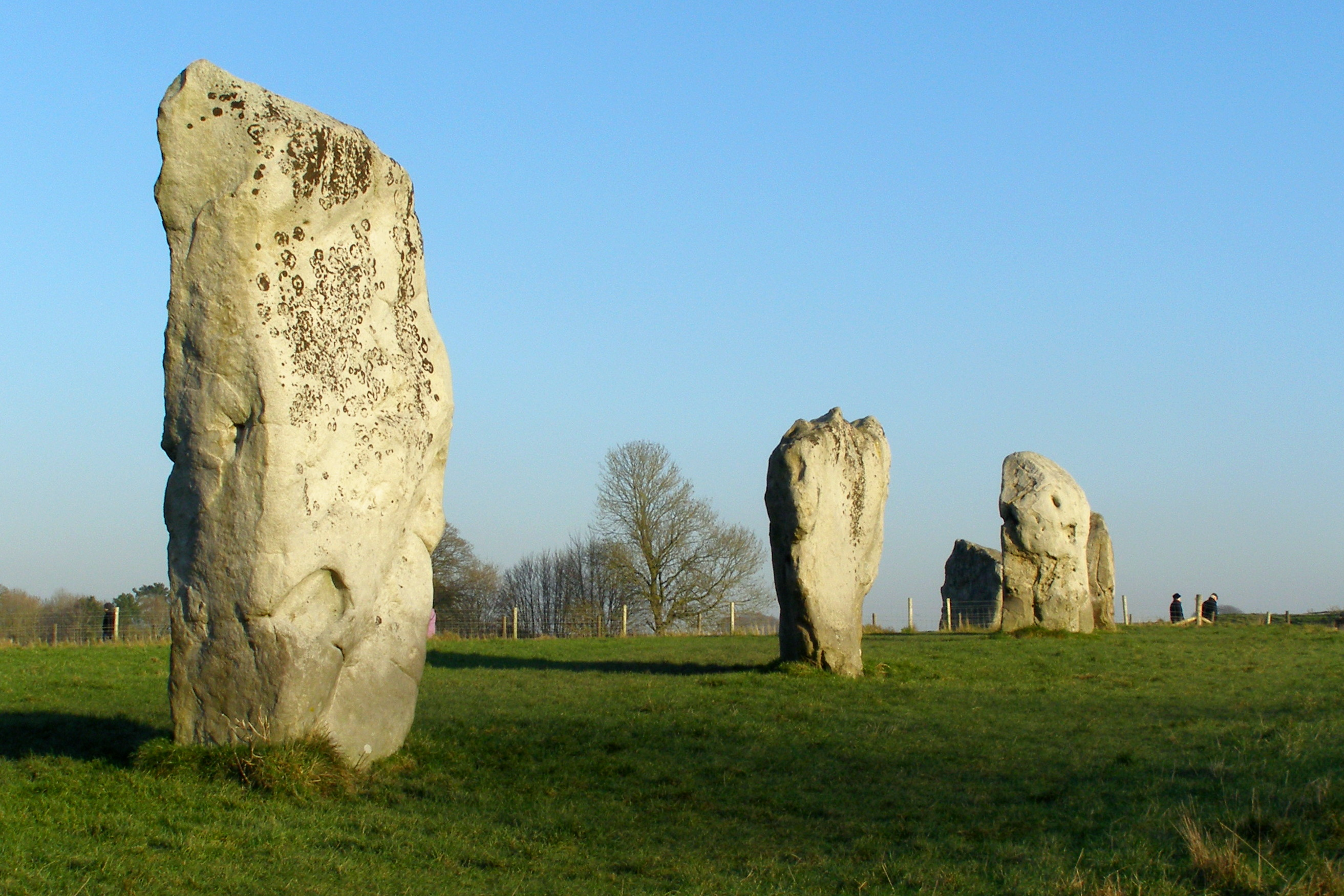 Sarsen stones in the south-west quadrant of Avebury henge's Great Circle. From the left: stones 8, 7, 6, and 5.